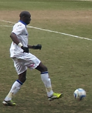 Mamady Sidibé playing for Tranmere Rovers on 29 March 2013.